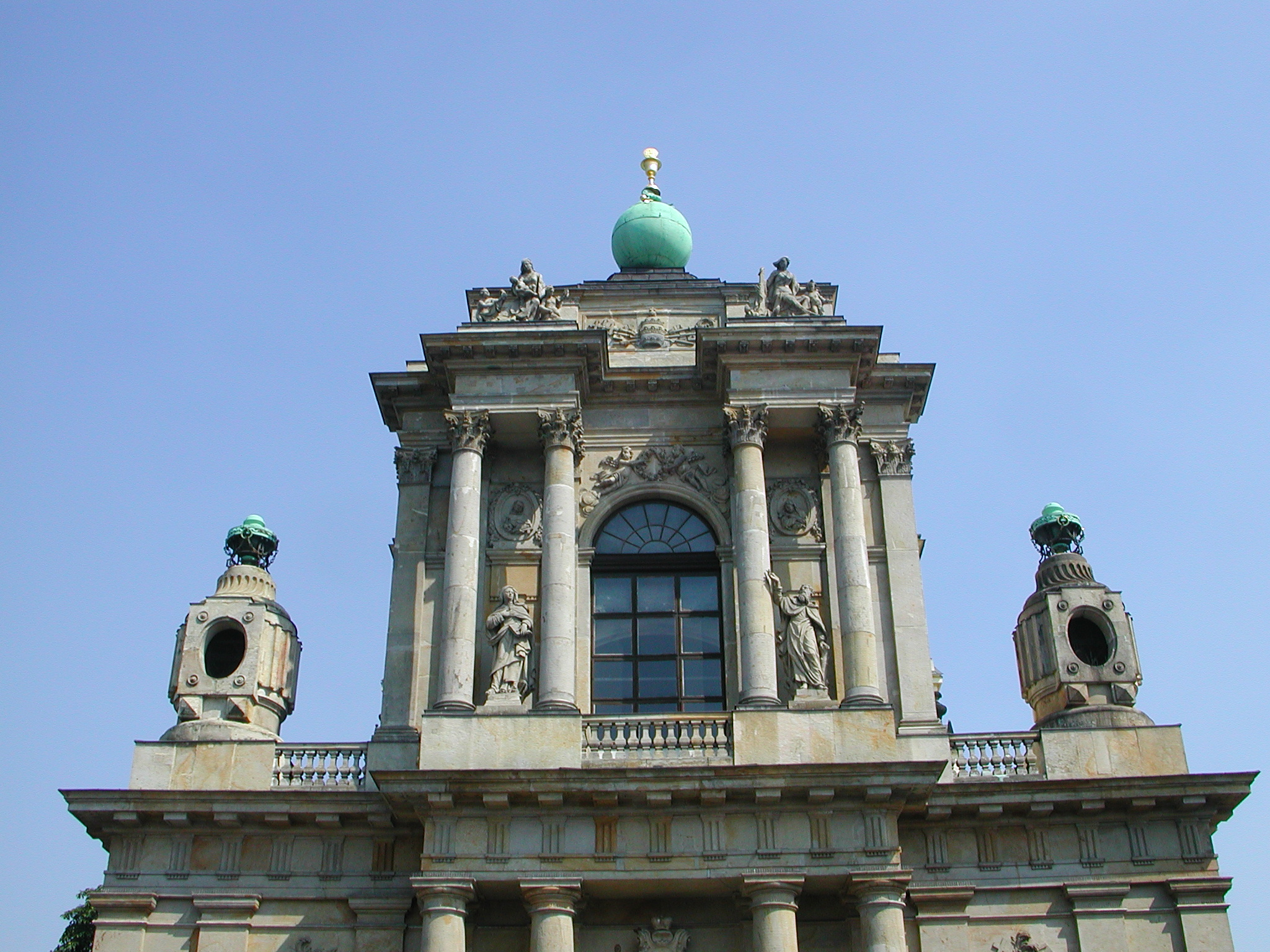 Upper part of the facade of the Carmelite Church, Warsaw, Krakowskie Przedmieście St.